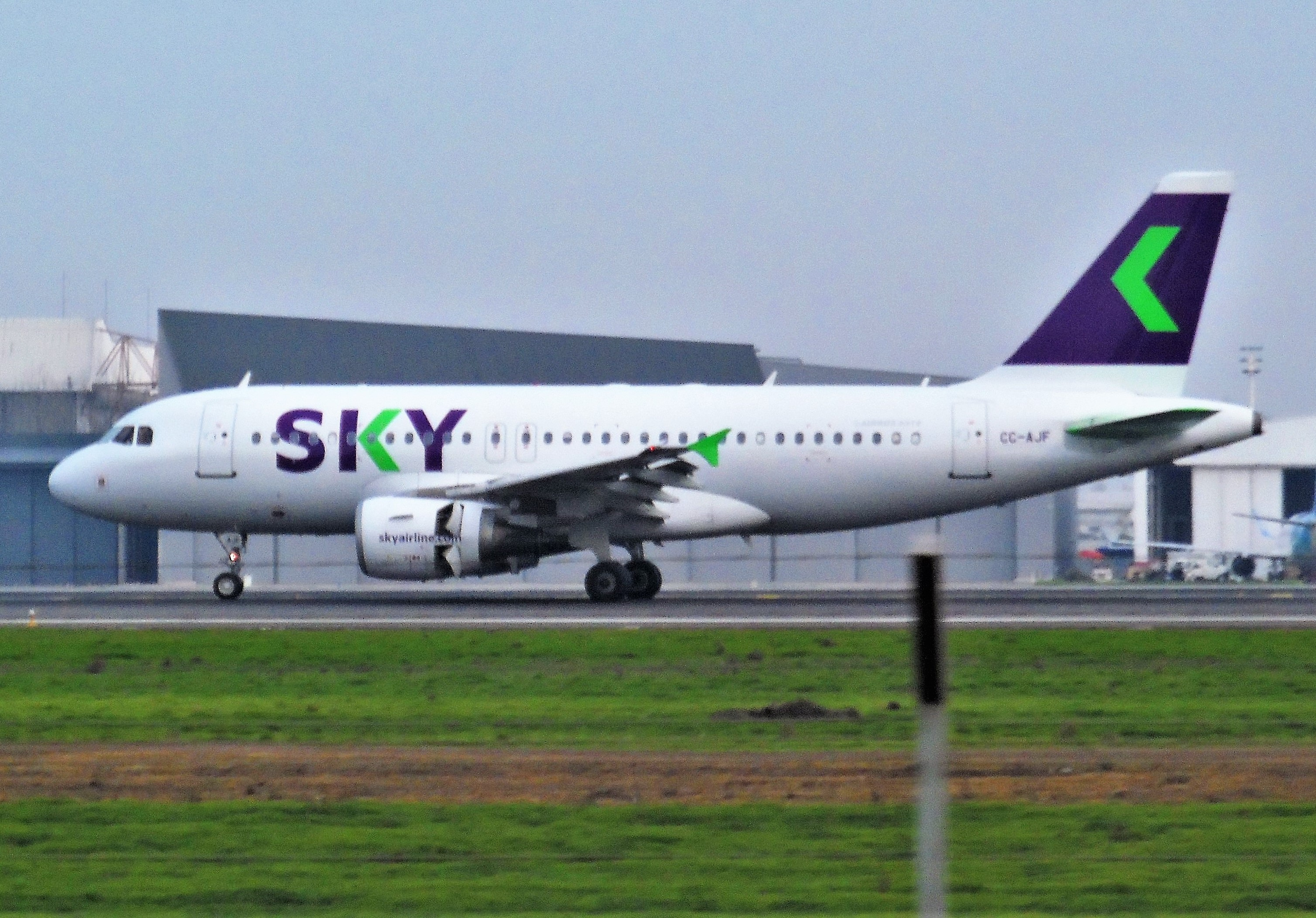 Sky